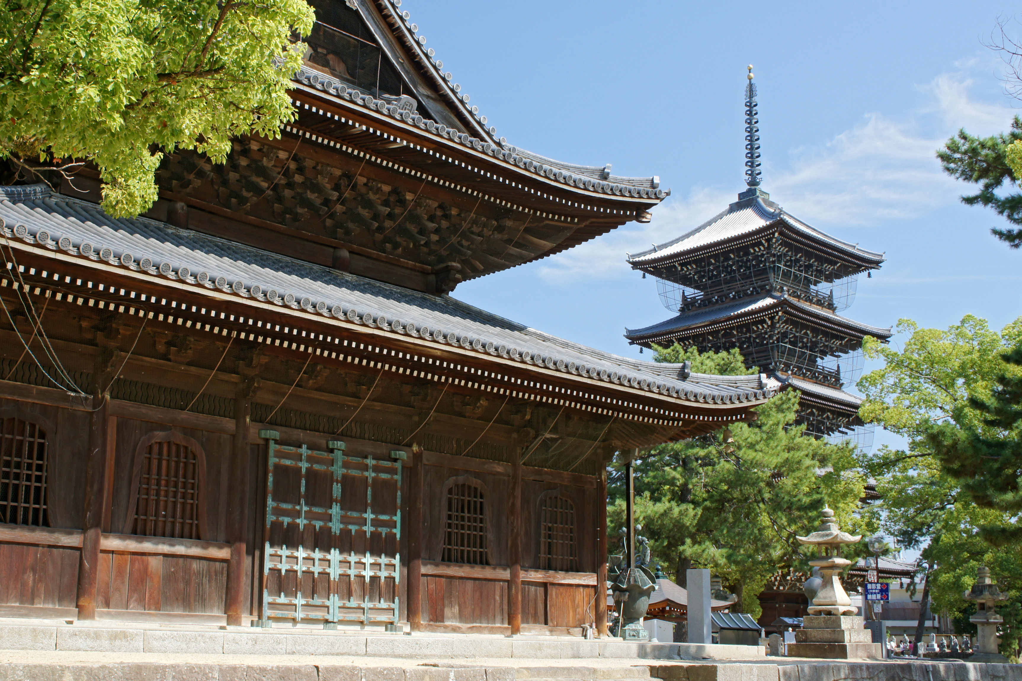 Zentsu-ji in Zentsuji, Kagawa prefecture, Japan.